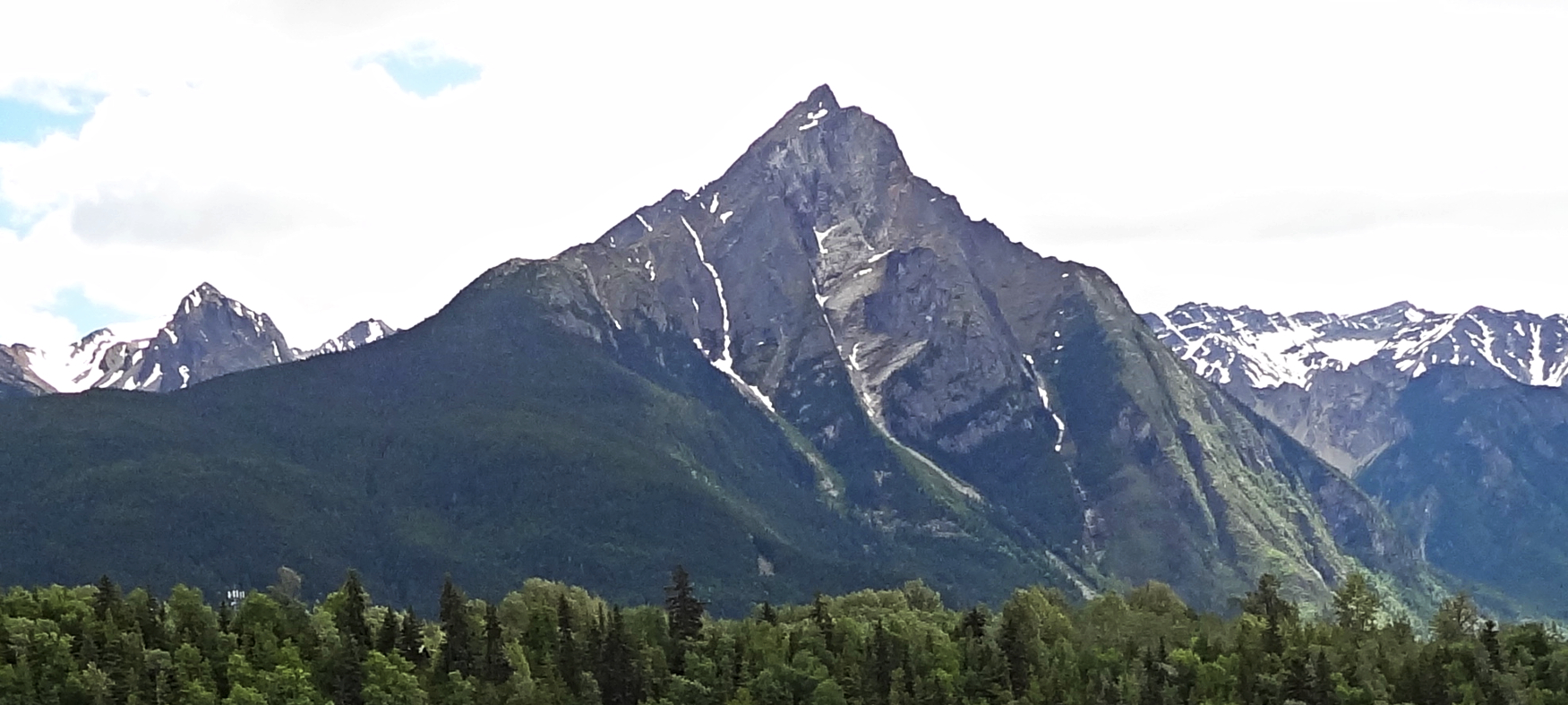 Hagwilget Peak seen while crossing the Bulkley River with Rocher Déboulé Range behind. Near Hazelton, BC